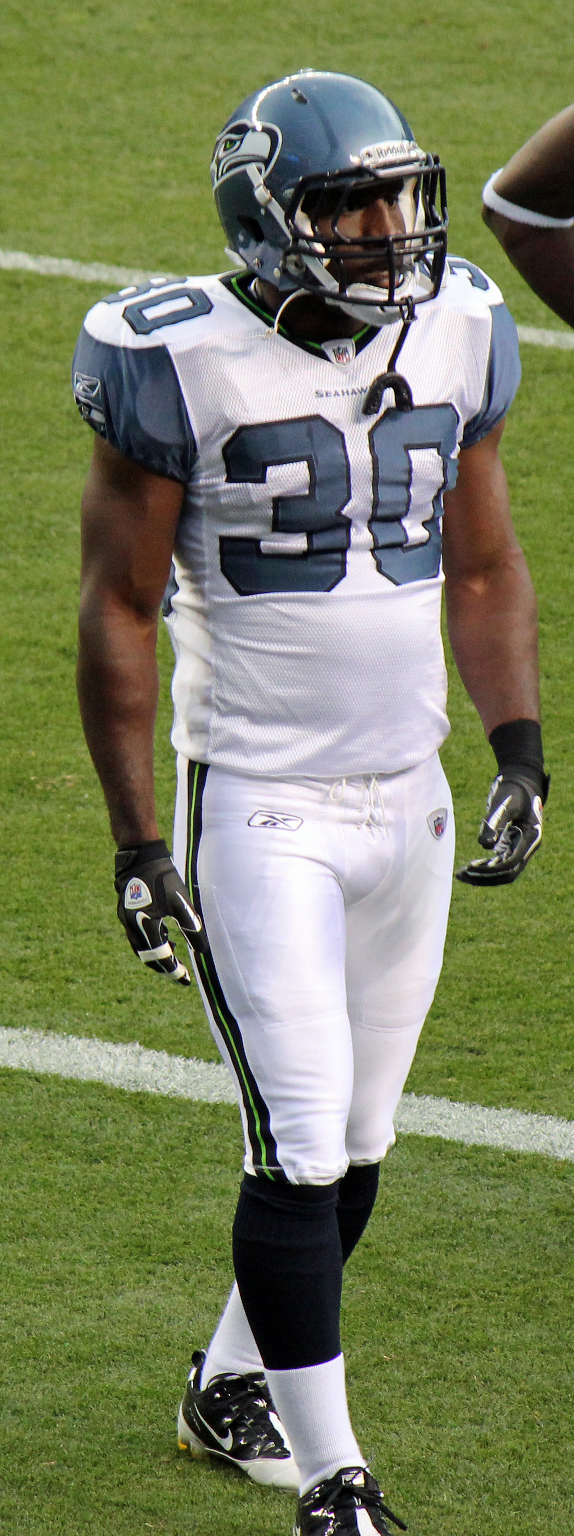 Mark LeGree, a player on the National Football League.